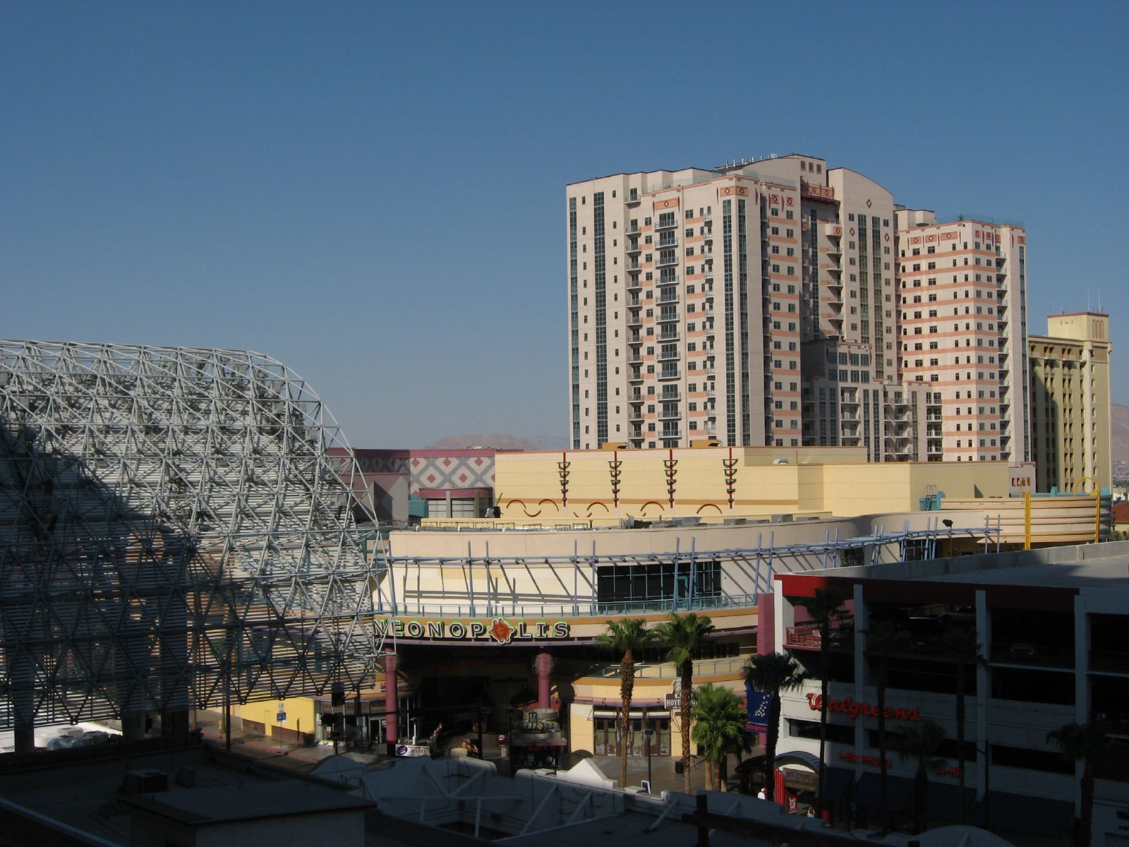 Looking northeast at the Streamline Tower in downtown Las Vegas.